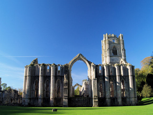 Fountains Abbey.